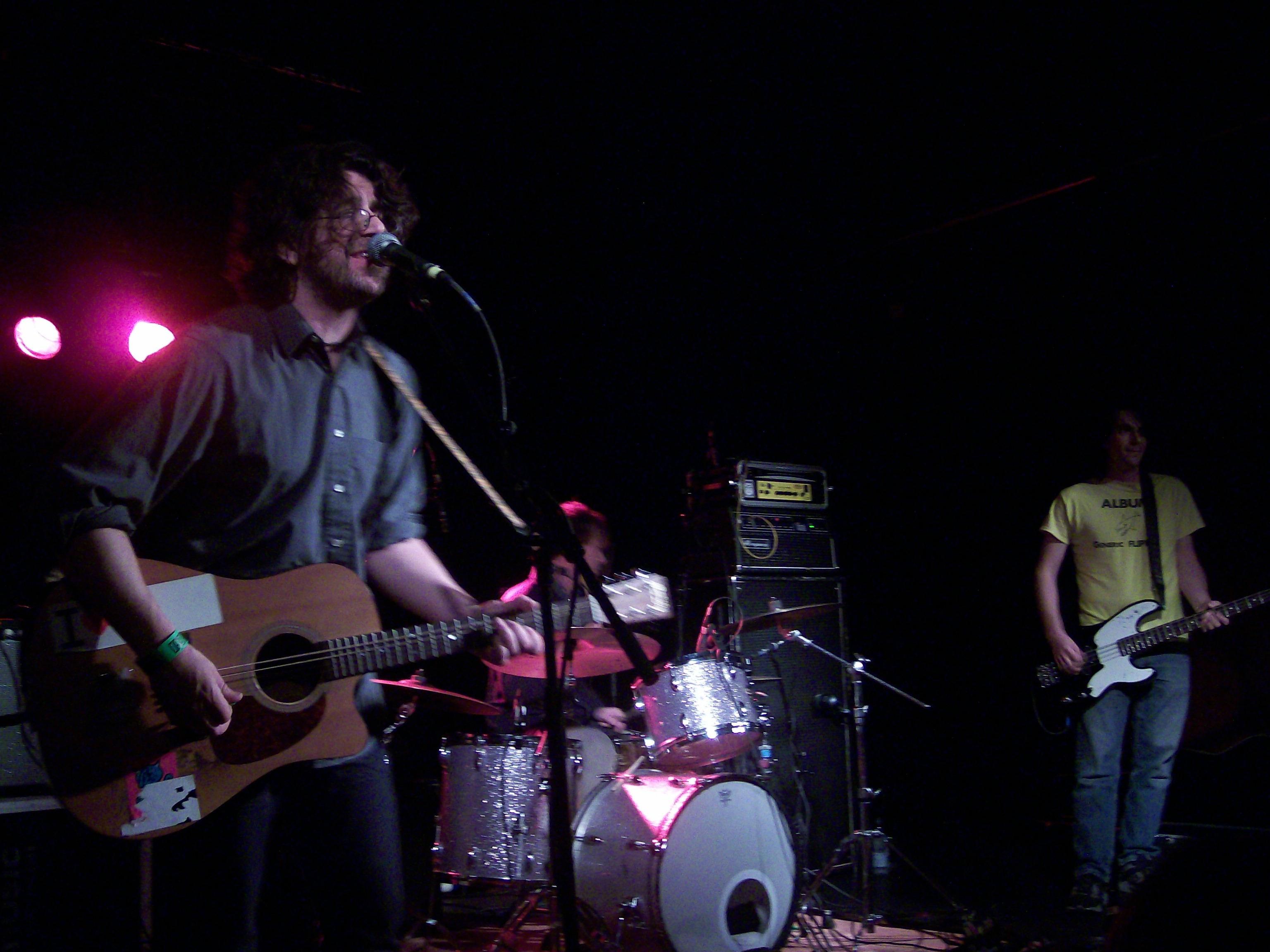 Sebadoh